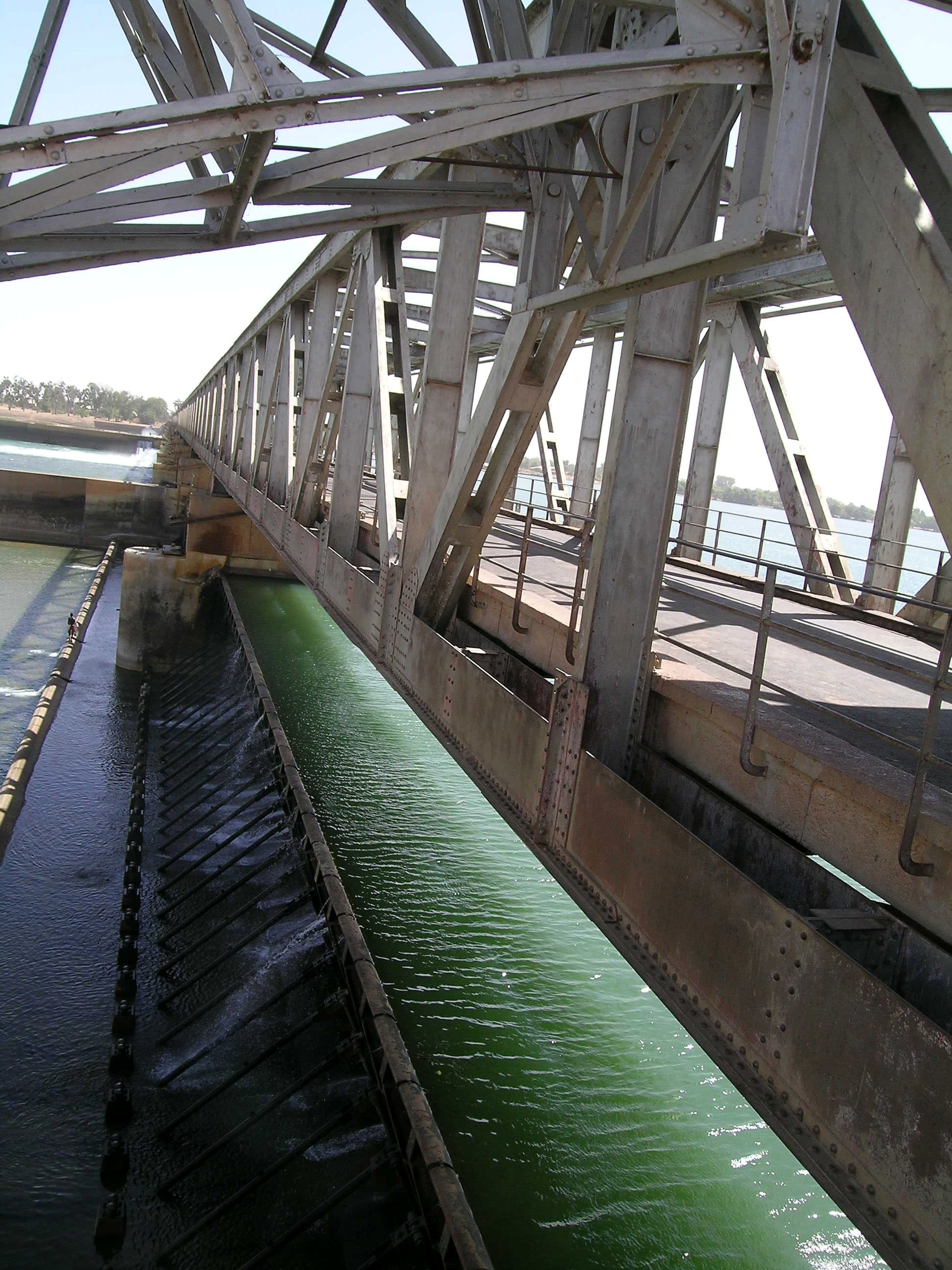 Dam of Markala, Mali.